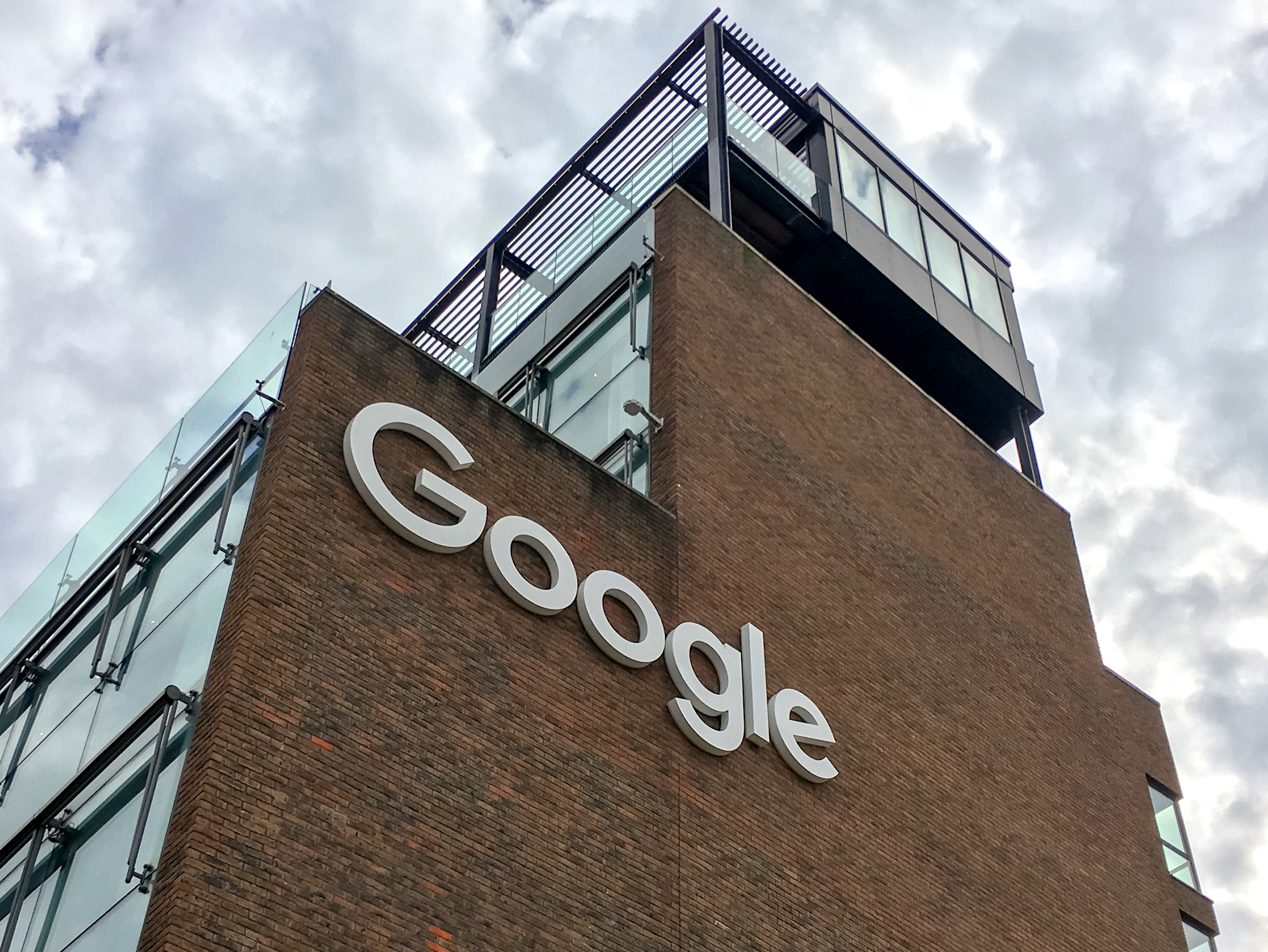 One of the main building at Google's headquarters for European operations in Dublin Ireland.